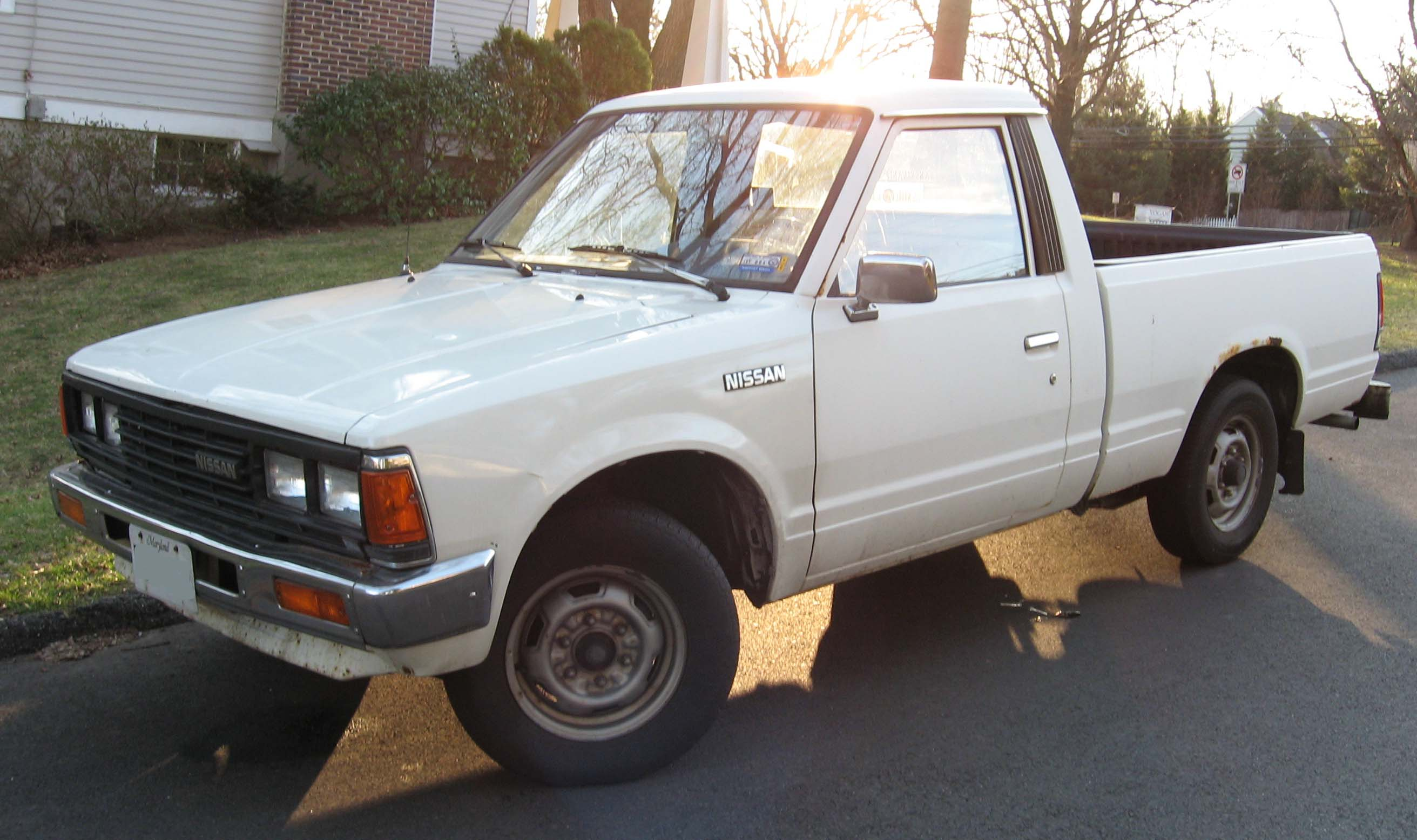 1985-1986 Nissan 720 photographed in USA.